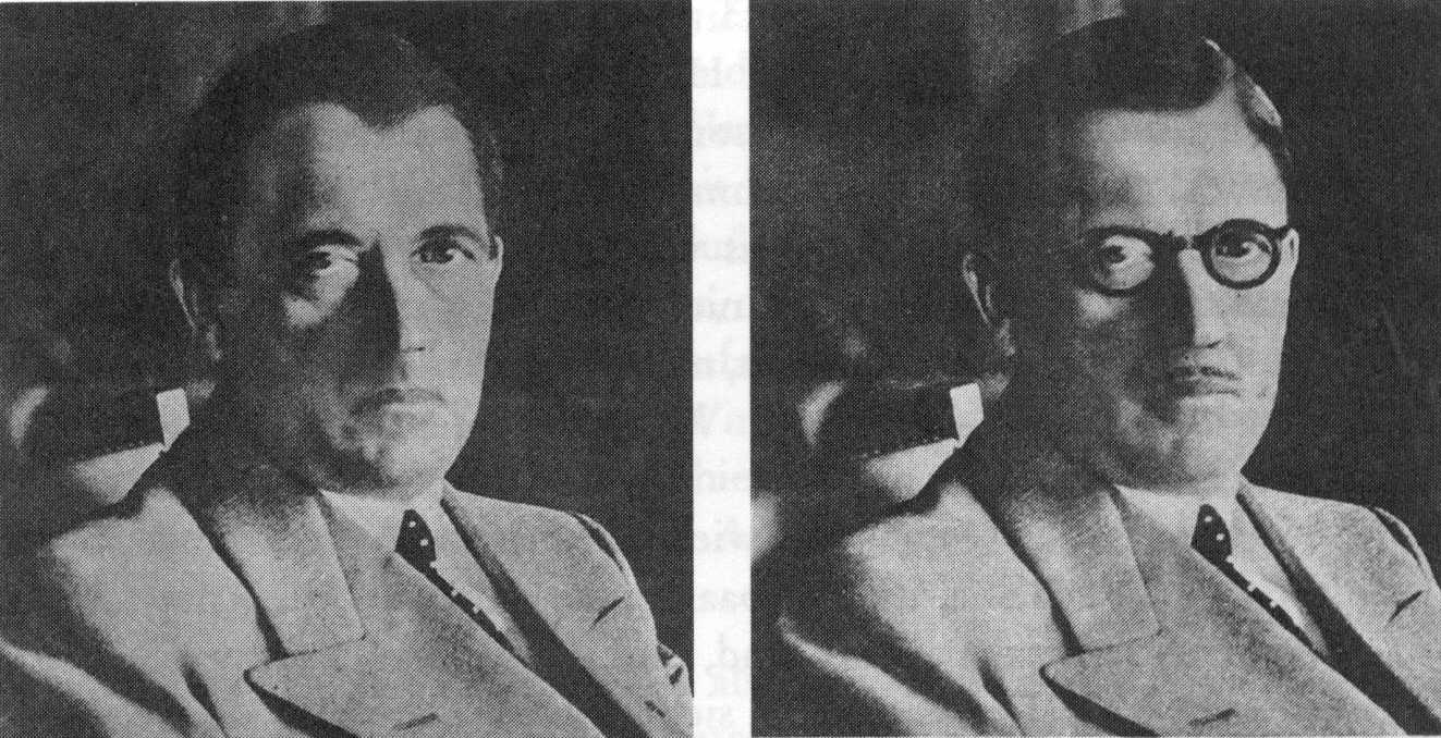 The picture depicts two versions of a photograph of Adolf Hitler that esd retouched by an artist of the United States Secret Service in 1944 in order to show how Hitler may disguise himself to escape capture after Germany's defeat. Since Hitler's death was not a certainty in 1945 the pictures were posted up all over Germany in 1945 to ease finding the (potentially) "fugitive" and camouflaged dictator.